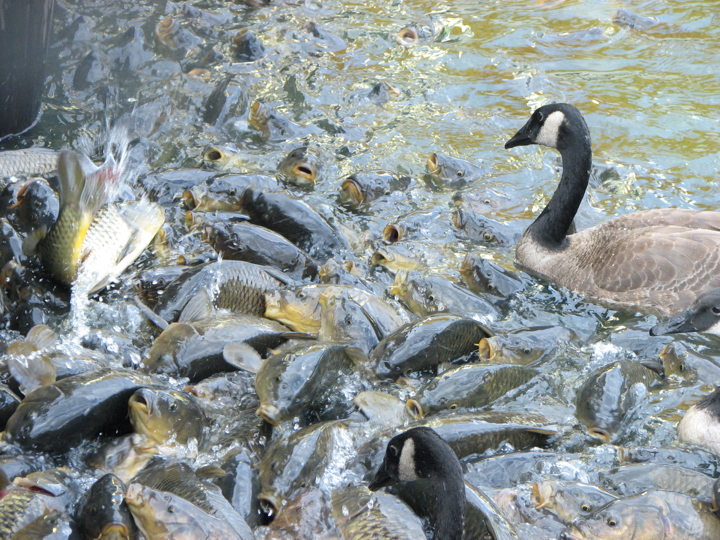 Canada goose and carp fighting to catch crumbs being thrown in to the pond.